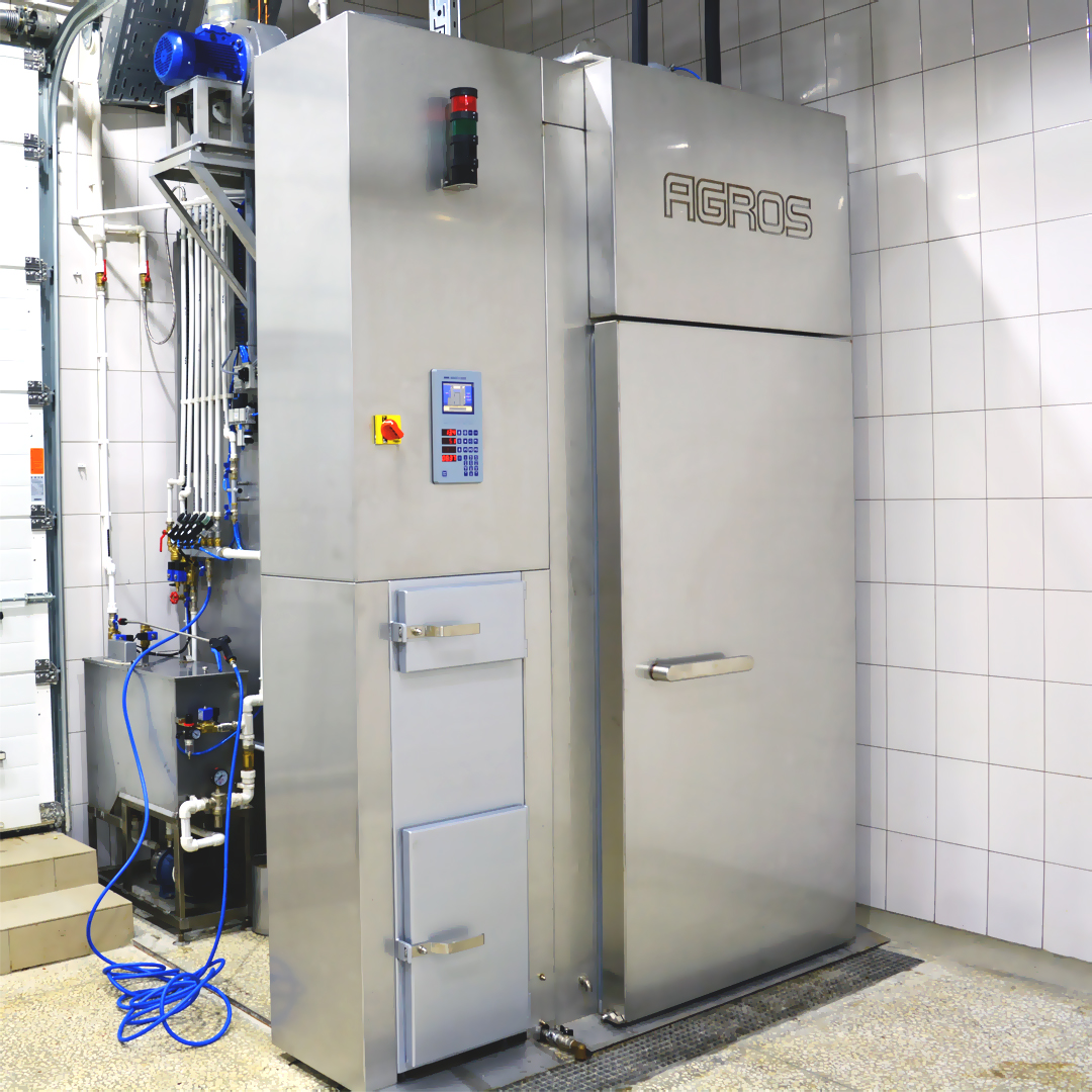 Универсальная автоматическая камера для холодного и горячего копчения пищевых продуктов, модель АГН-232.Р производство АГРОС г. Обнинск